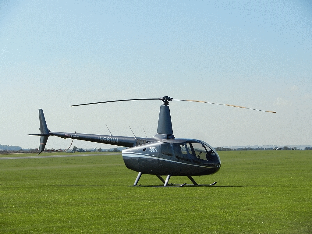 A Robinson R66 turbine driven helicopter